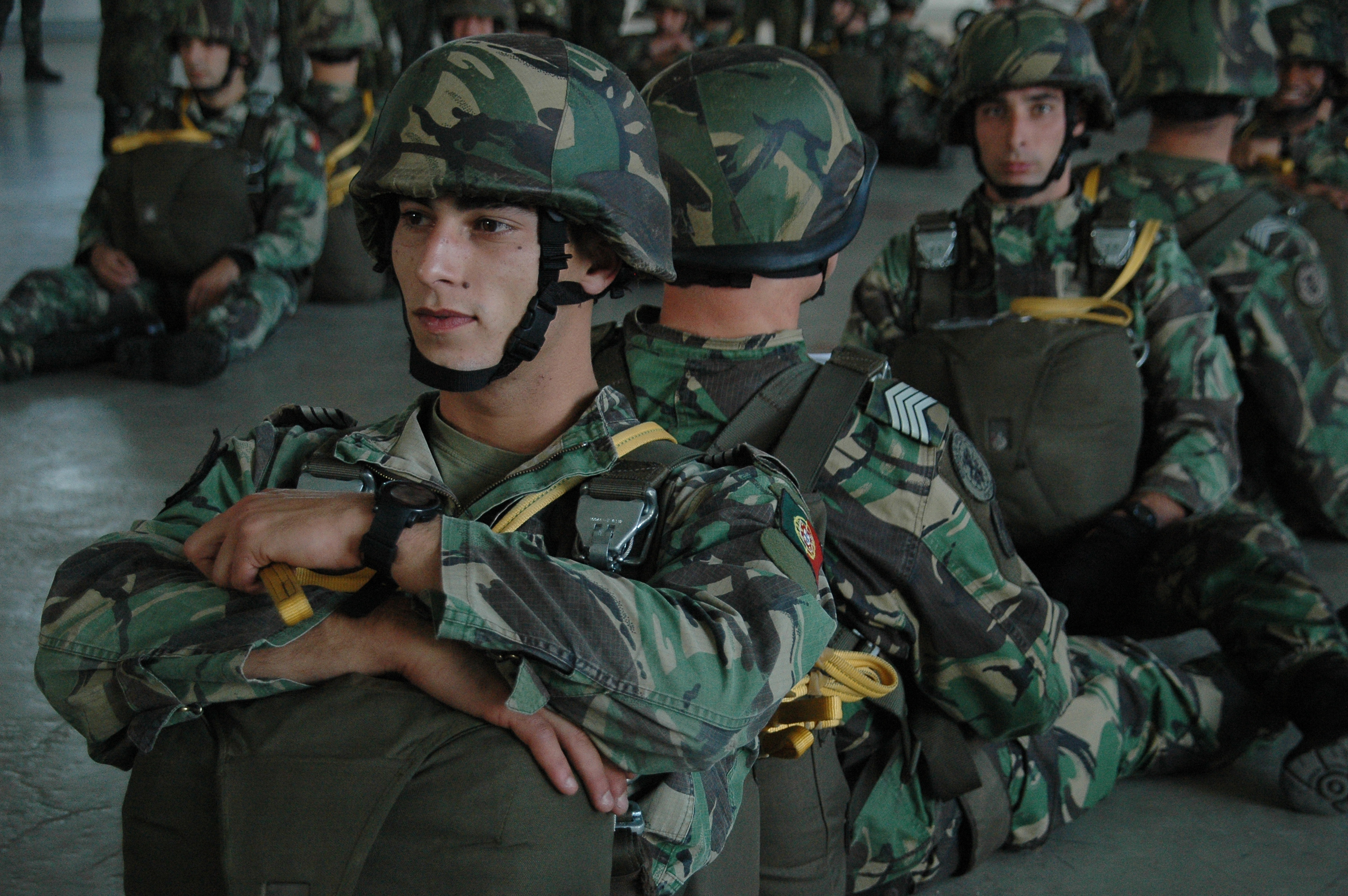 Members of the Portuguese Army participate in a mass NATO paradrop at Santarém, Portugal on October 28, 2015 during Trident Juncture 15.